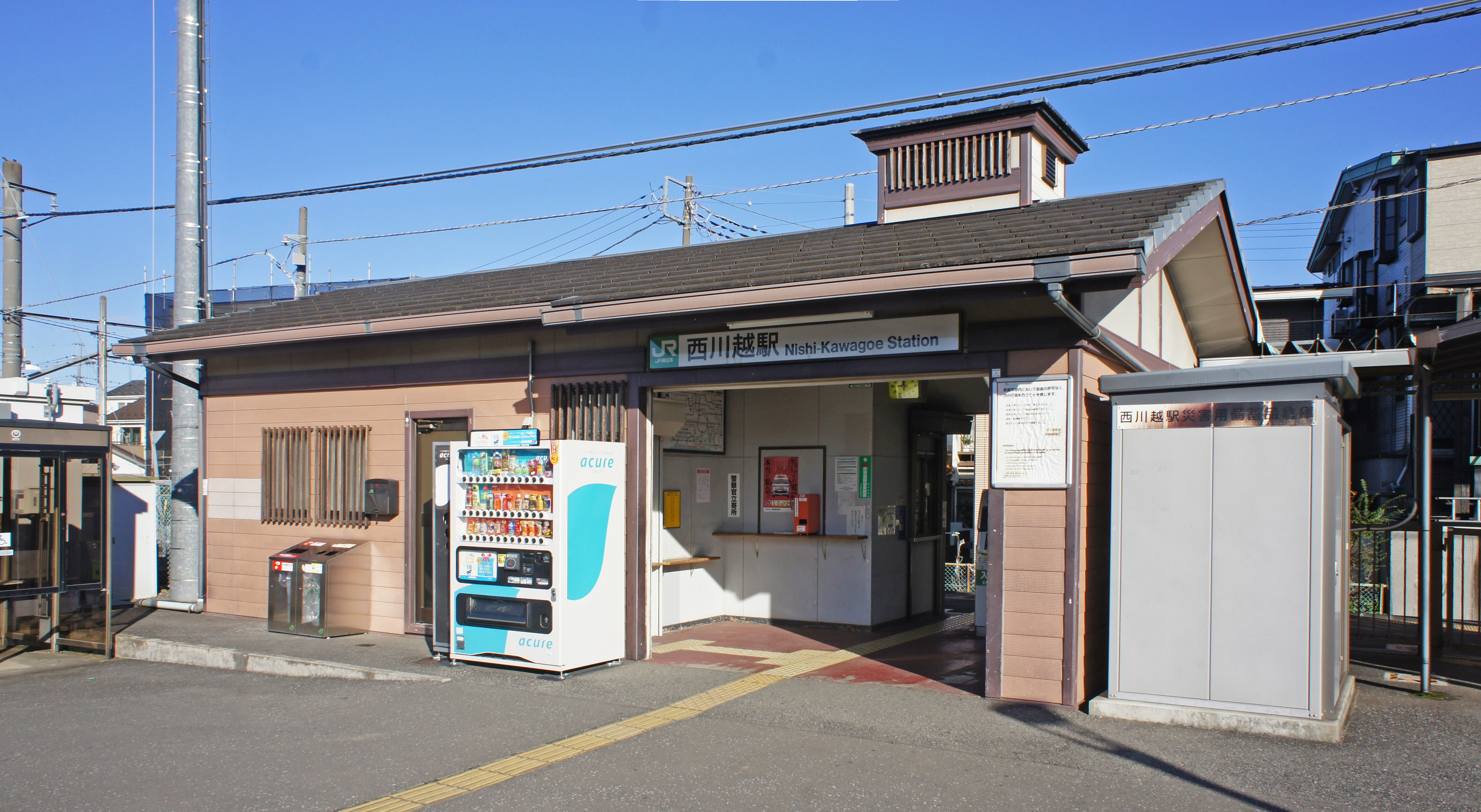 Station building of JR Kawagoe-Line Nishi-Kawagoe Station